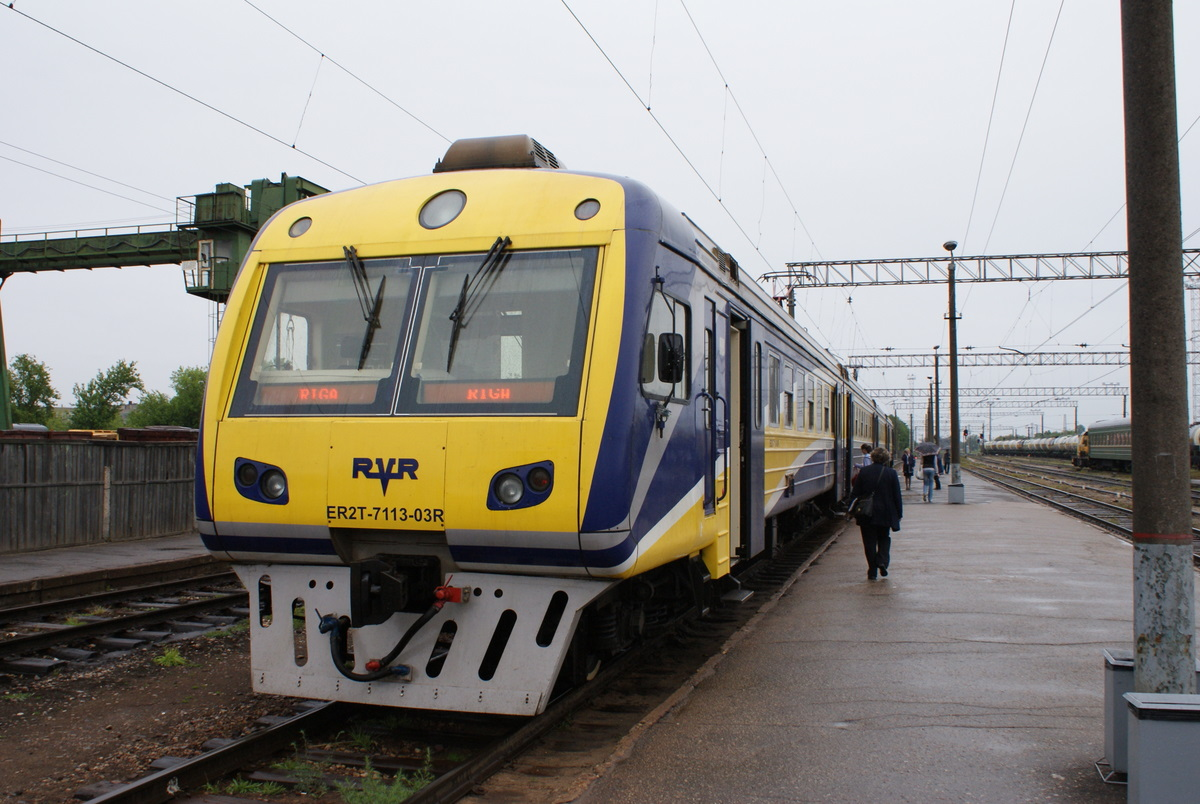 EMU type ER2T at Jelgava station, Latvia